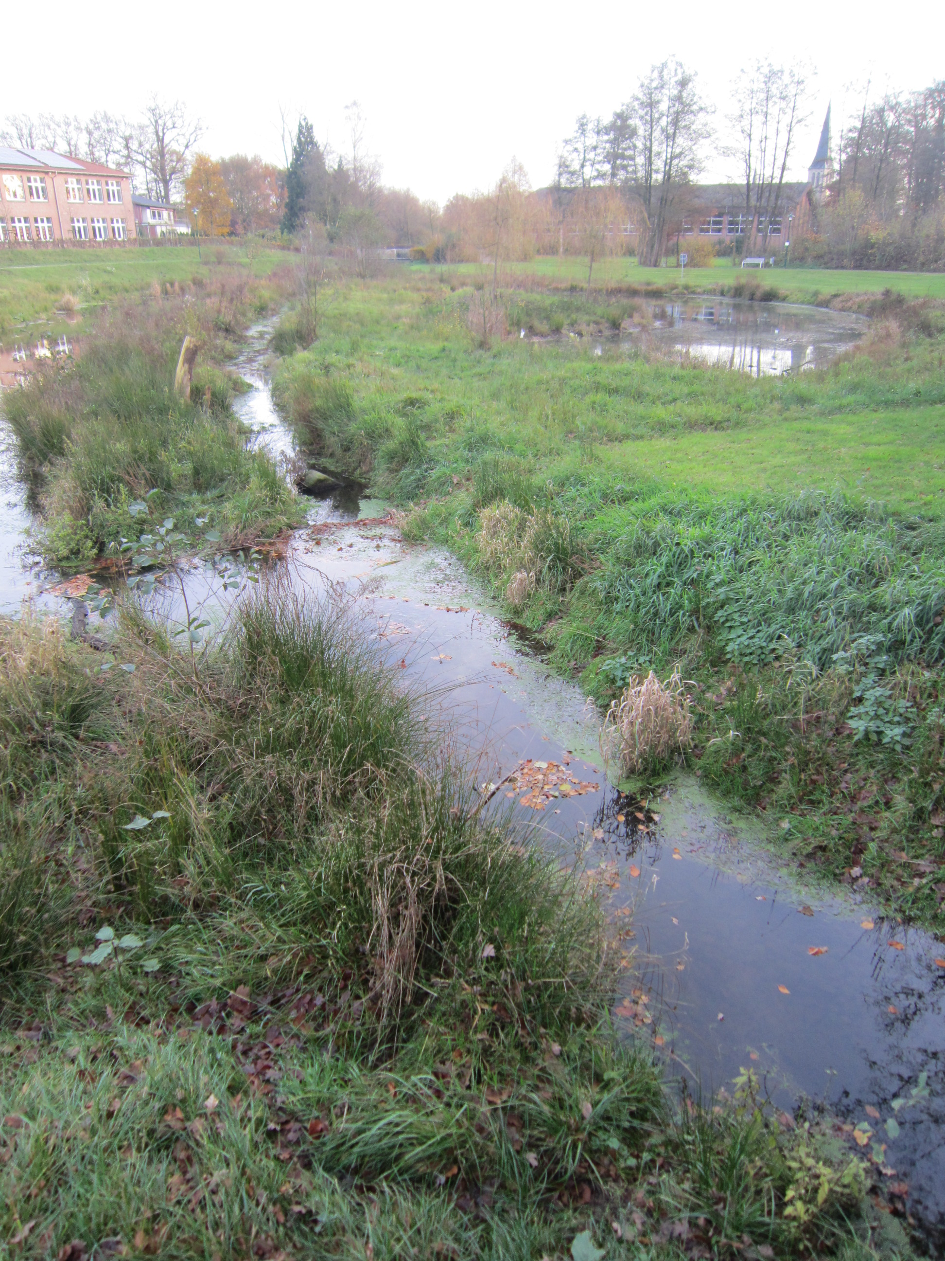 Bakumer Mühlenbach flowing across Bakum's village park